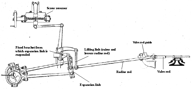 Anon; Questionnaire sur la construction et la conduite des locomotives à vapeur; text book produced by la Compagnie des Chemins der fer du Midi - matériel et traction (Bordeaux 1916). The company merged in 1932 and was nationalised in 1938. None of the licensing categories below seem to apply.